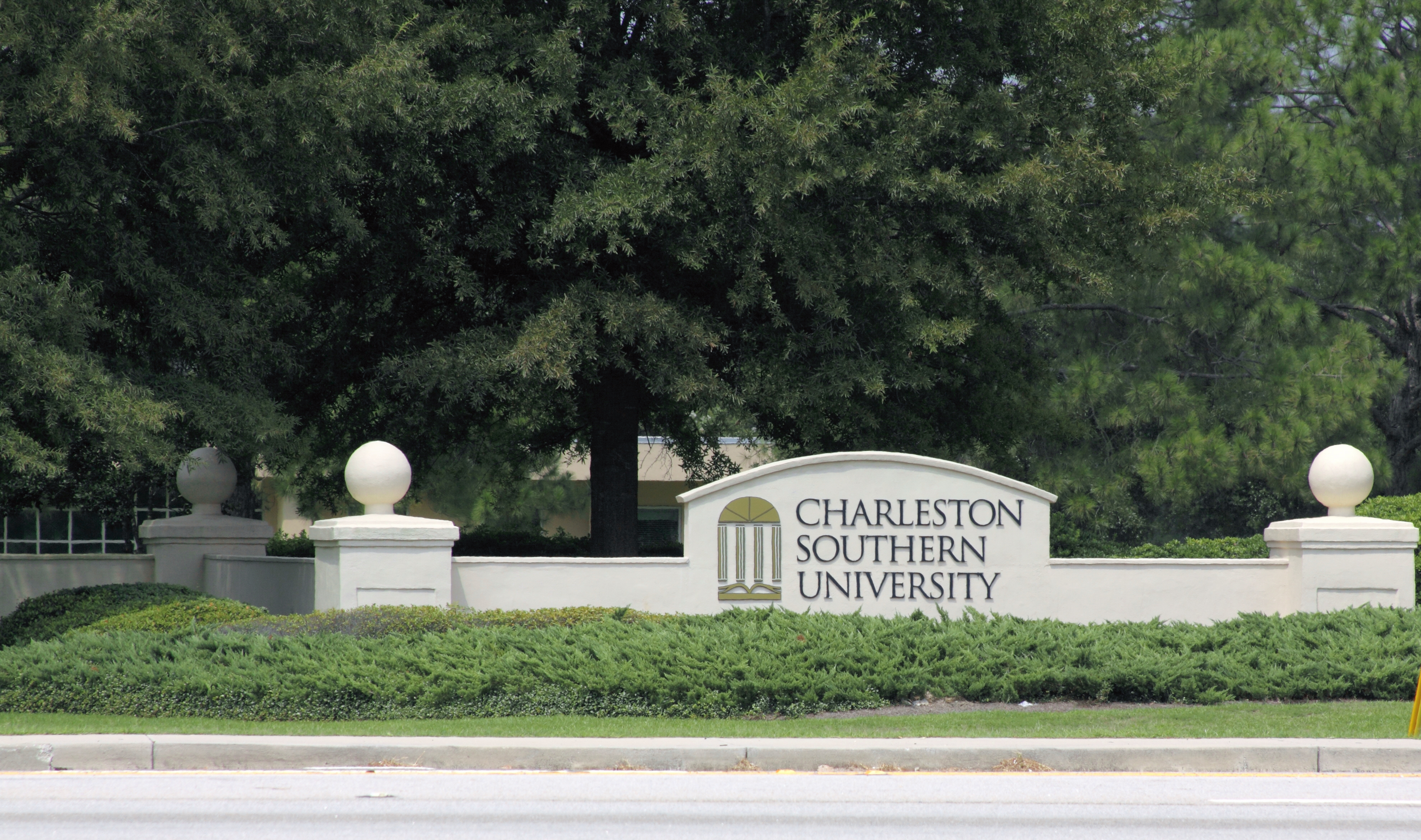 Brick sign showing where Charleston Southern is located.